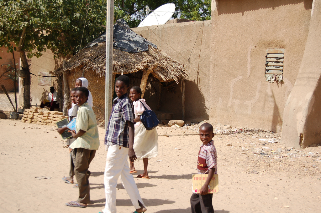 Children with their school books and slates walk along a street in Diffa Niger. April 2006